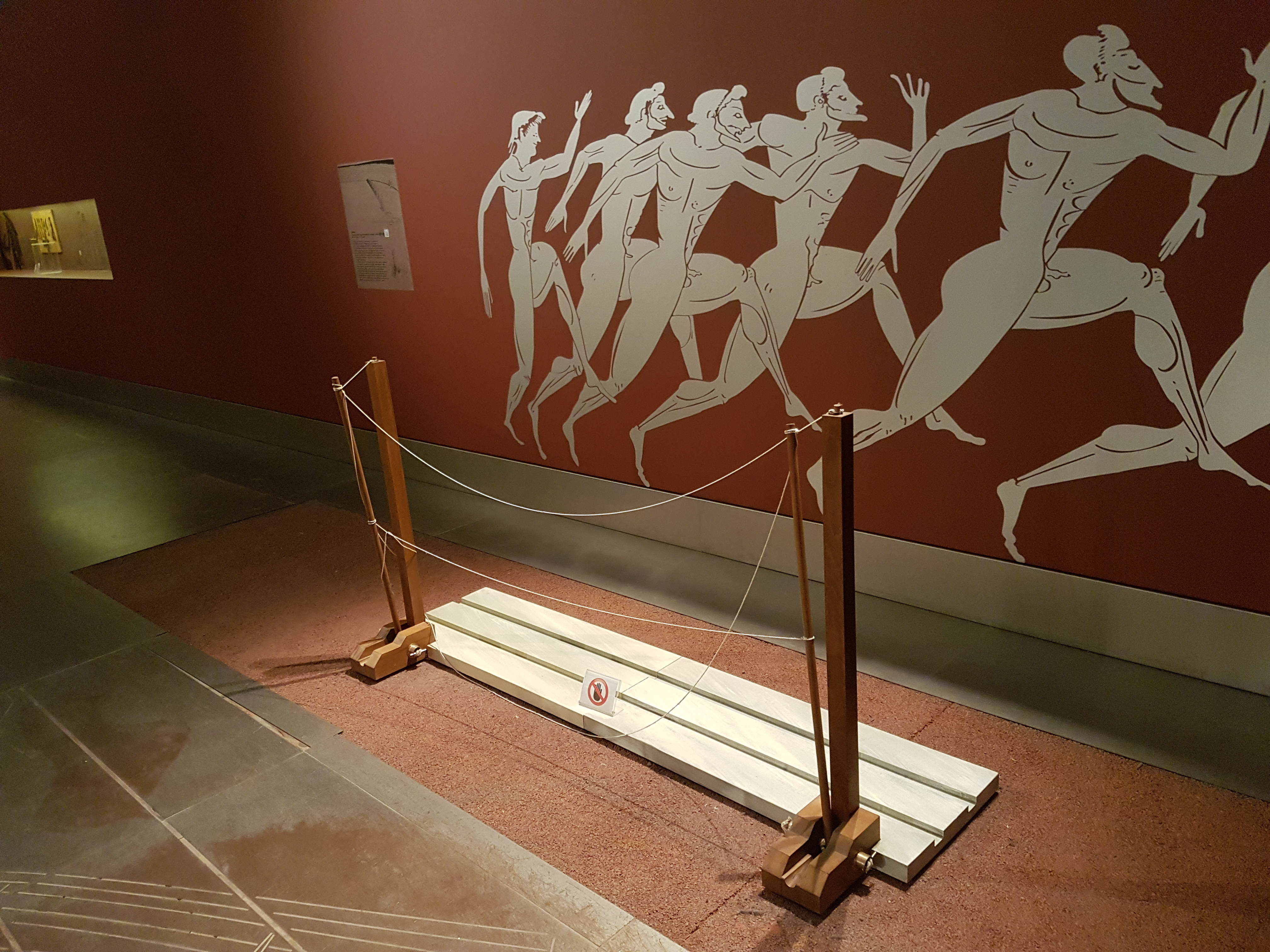 Hysplex, 4th century BC, Greece. Used as a starting mechanism for ancient runners. Reconstruction based on illustration on Panathenean amphora dated 344/343 BC. Thessaloniki Technology Museum